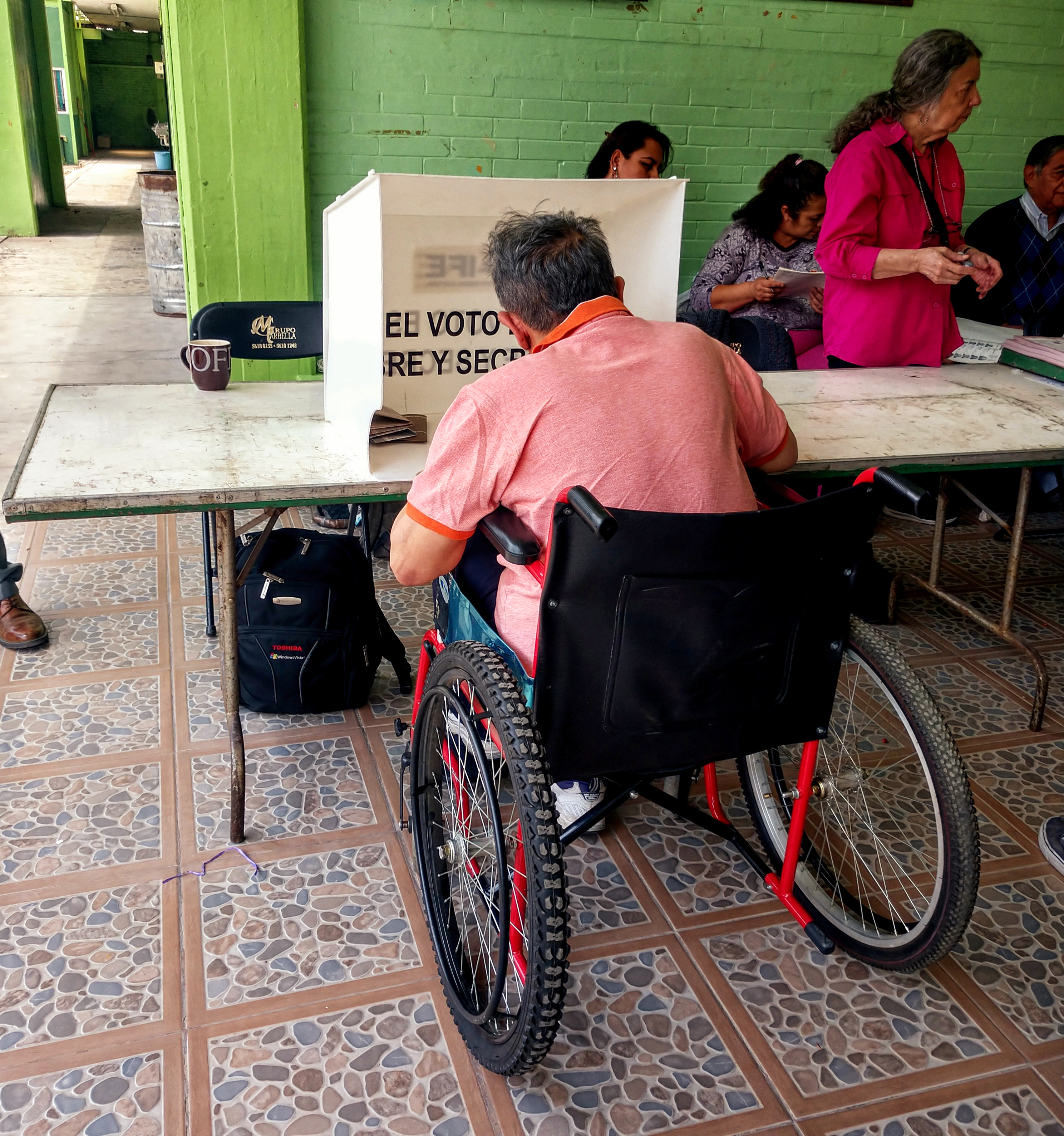 People in a wheelchair voting in a special box. Mexico General Election, July 1st, 2018. Mexico City, Mexico.